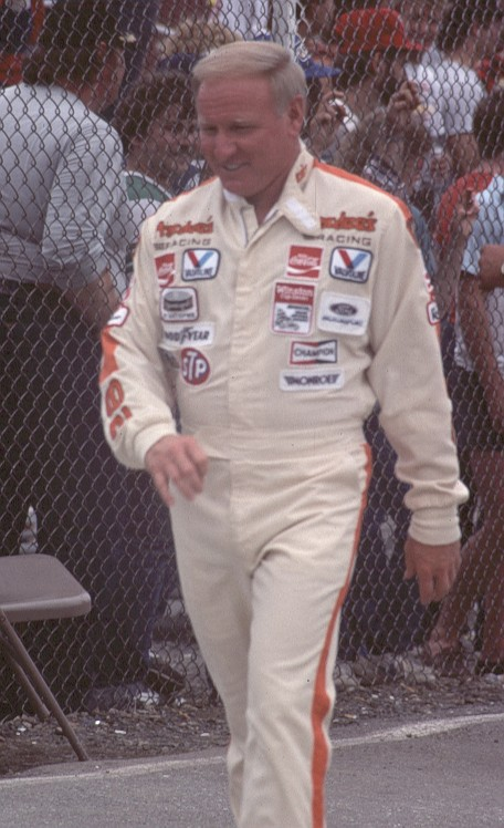 NASCAR champion Cale Yarborough. Photo by Ted Van Pelt